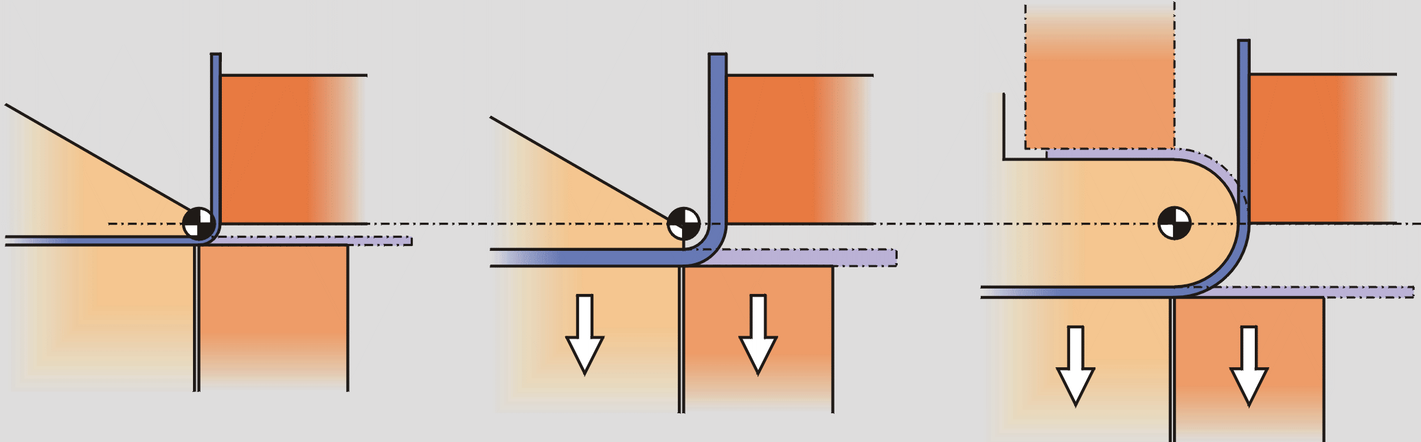 Folding beam adjustment (for material thickness) and lower beam (center of bent radius)